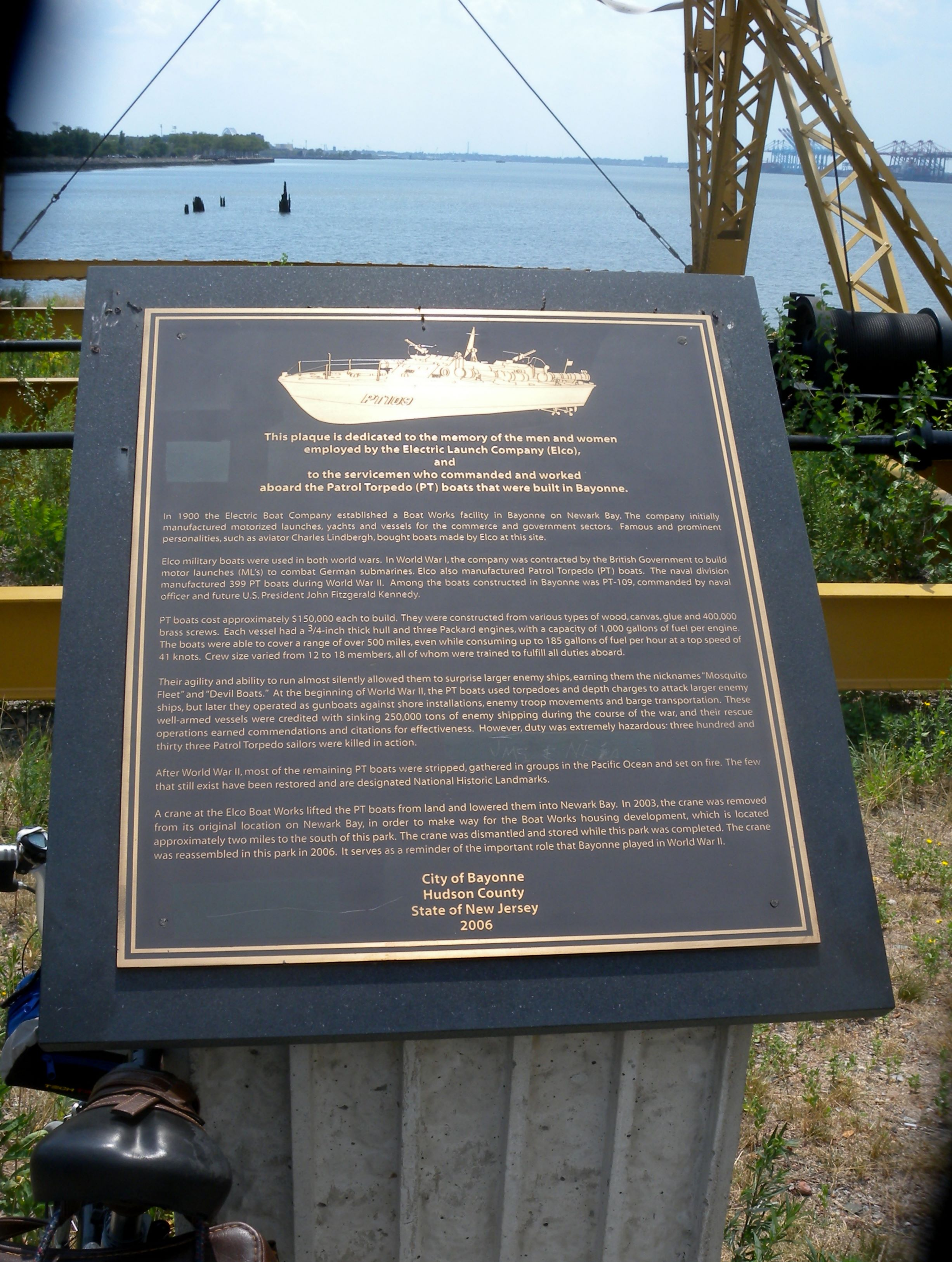 Looking southwest at plaque for ELCO boat building on a partly cloudy midday with File:Elco crane Bayonne jeh.jpg in background.